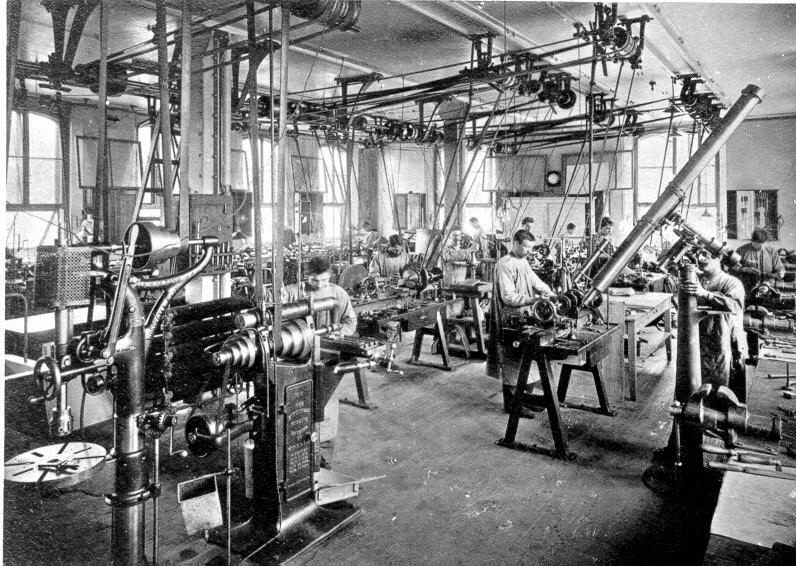 The last decade of the 19th century is paved with milestones, inventions and design innovations that already look forward past the turn of the century: Metallographic microscopes, anastigmatic photolenses, binocular microscopes with image-reversing prisms, to name only a few. Images donated as part of a GLAM collaboration with Carl Zeiss Microscopy - please contact Andy Mabbett for details.